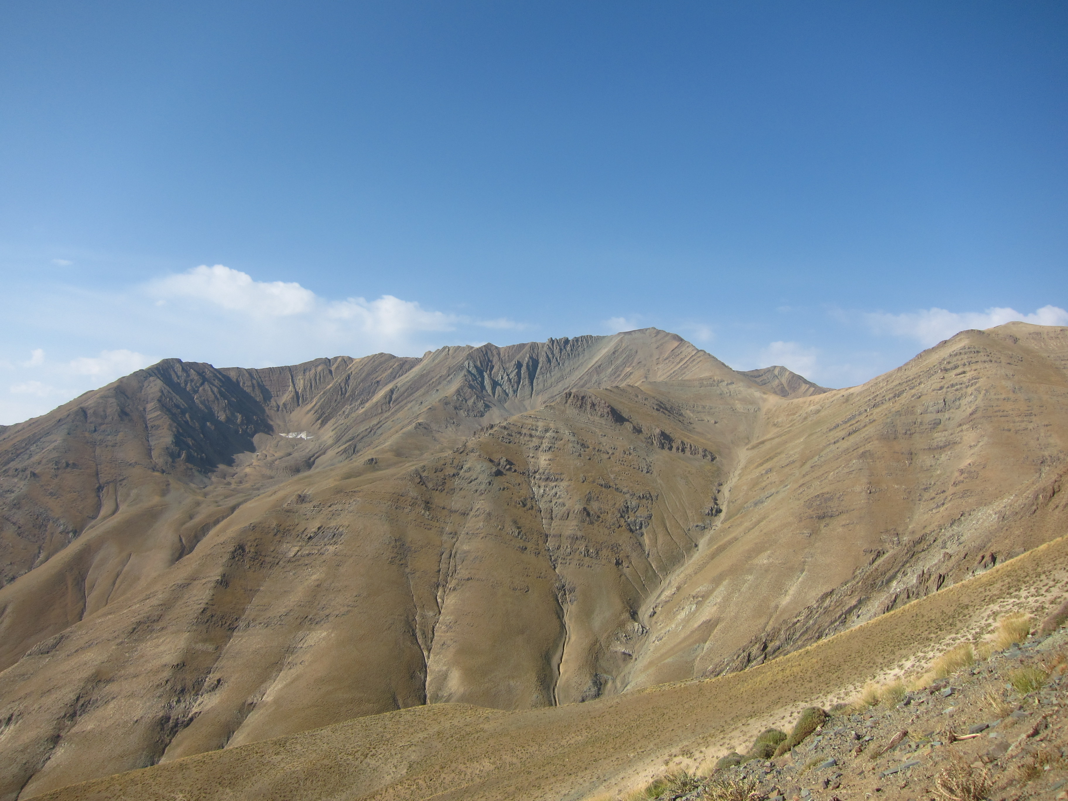 Sarakchal Peak, view from Varzab Pass.